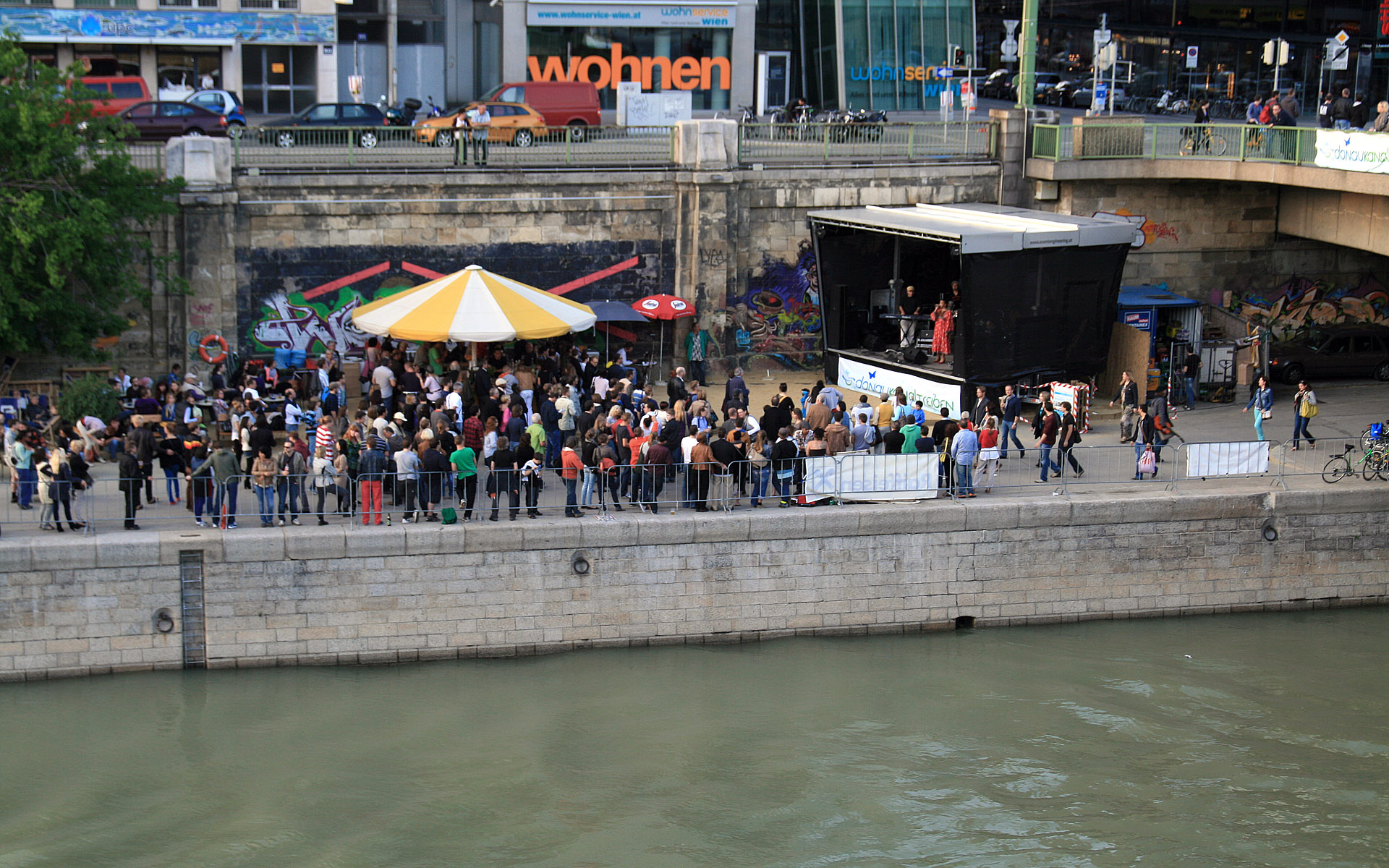 Aminata and the Astronauts, Donaukanaltreiben 2012 in Vienna.